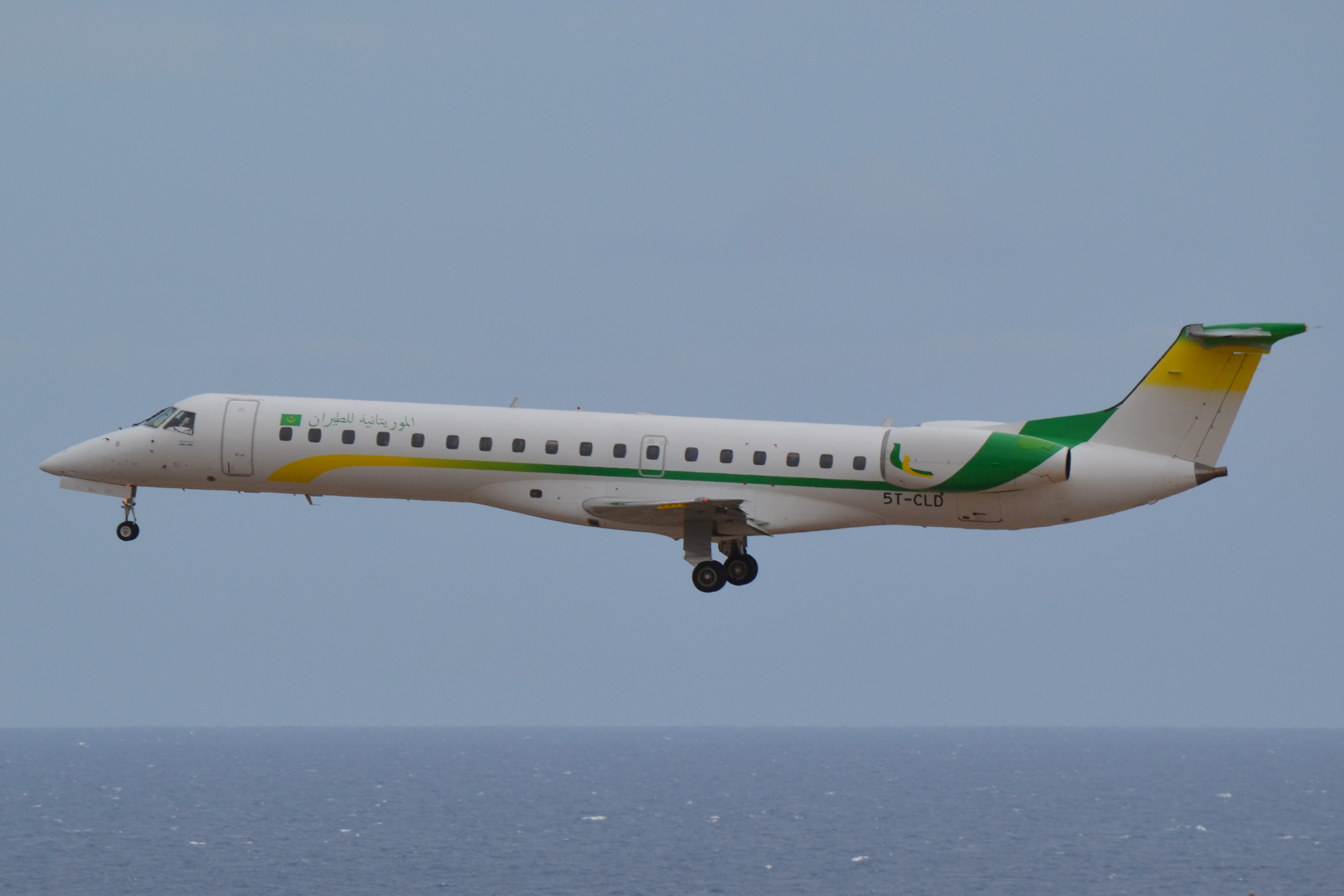 Gran Canaria Airport 5T-CLD